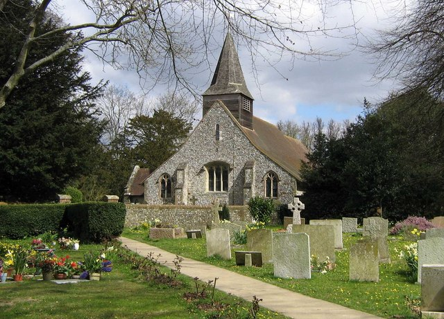 Walberton Church The Church of St Mary the Virgin at Walberton in Spring.